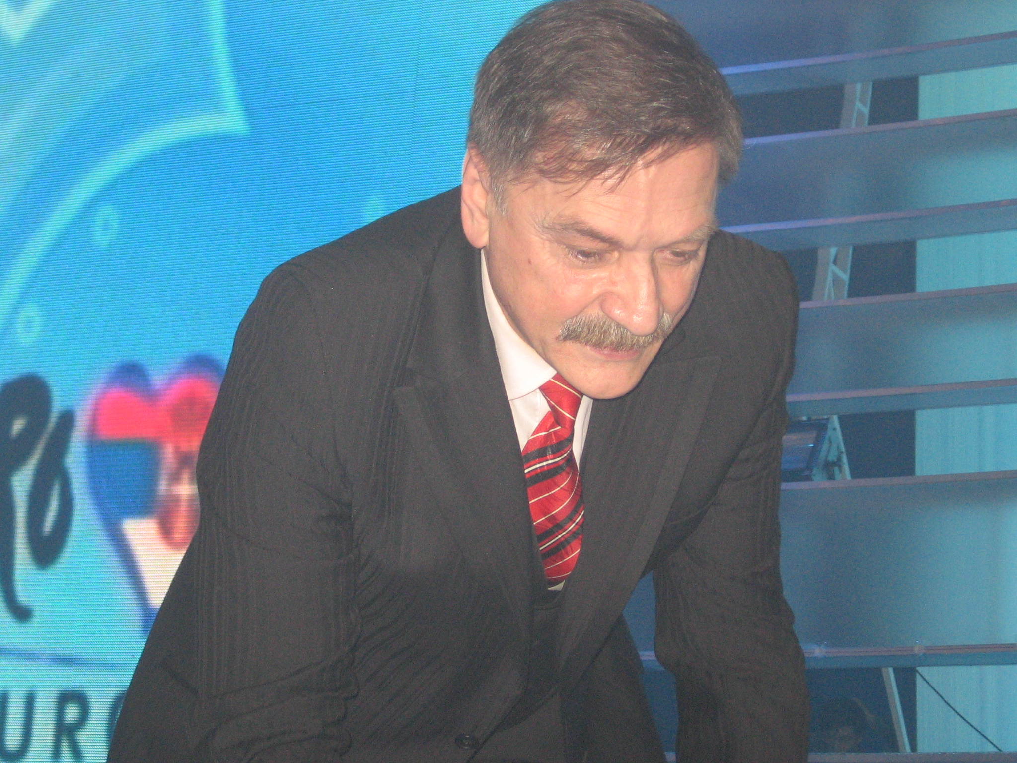 Alexander Tikhanovich